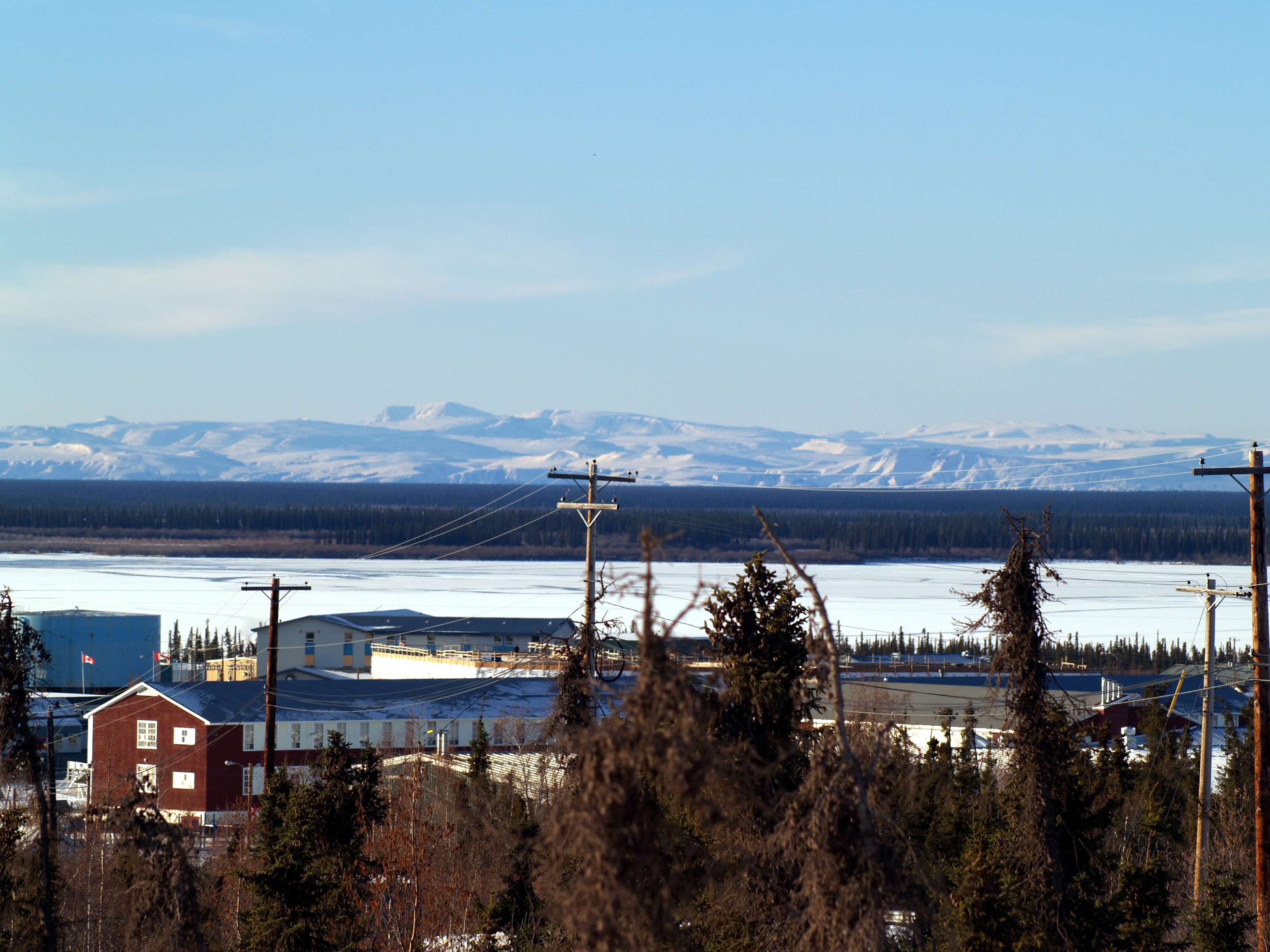 The Richardson Mountains in the background with Sir Alexander Mackenzie School (SAMS) in the foreground